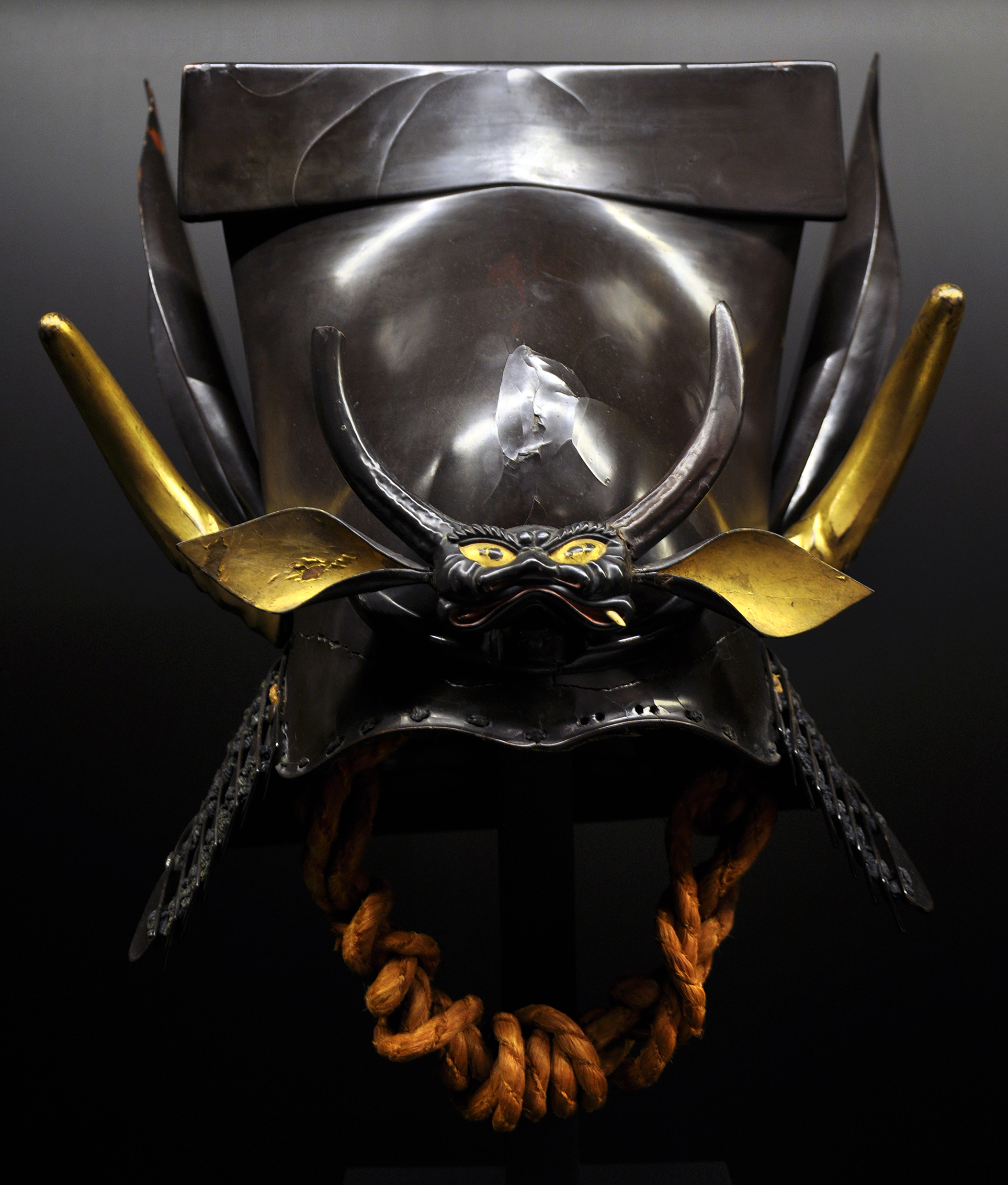 Helmet ( kittate kawari kabuto ), Momoyama period (1573-1603), Japan . Ann and Gabriel Barbier-Mueller Museum, Dallas (Texas) ; the photograph was taken during an exhibition in the Musée des Arts Premiers in Paris.